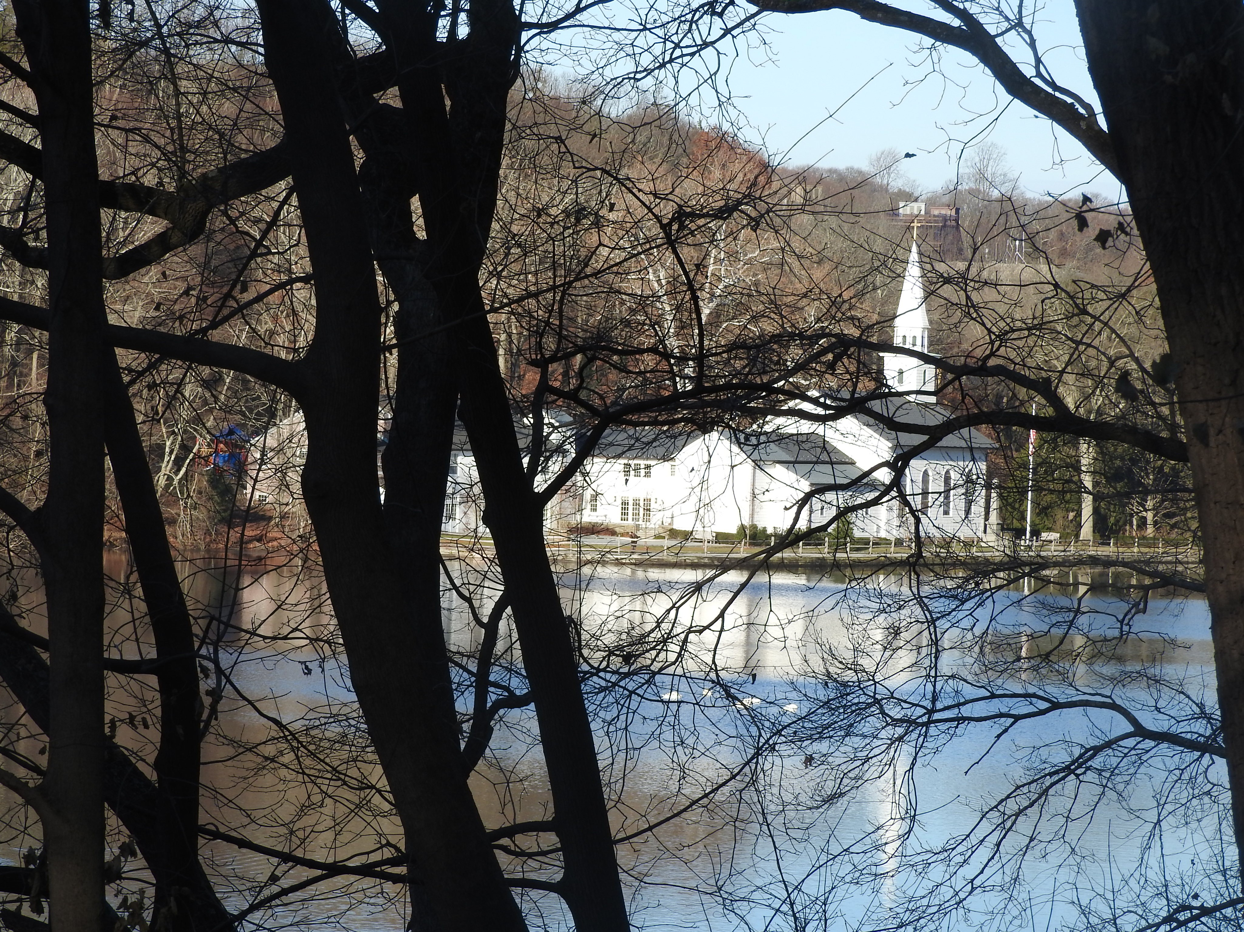 Looking northwest, zoomed, across the pond on a sunny winter day